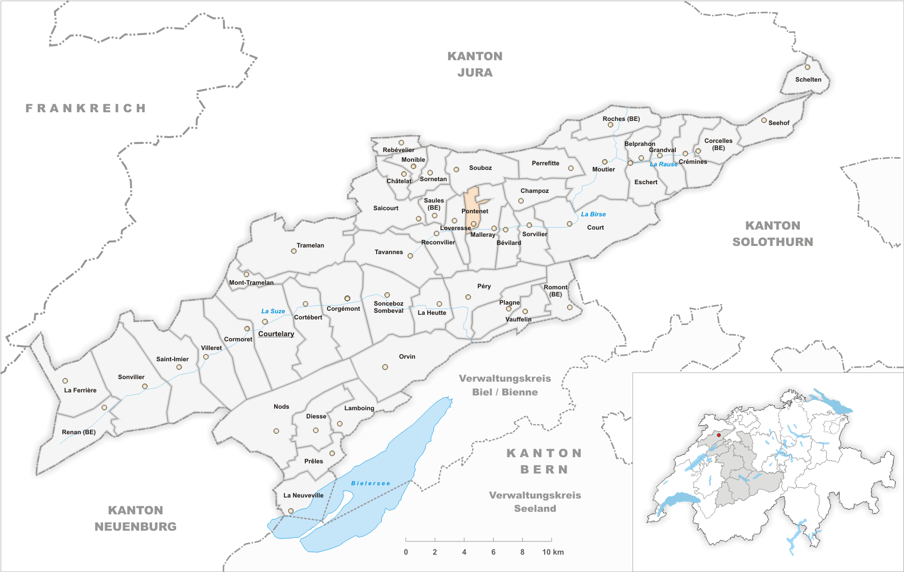 Municipality Pontenet